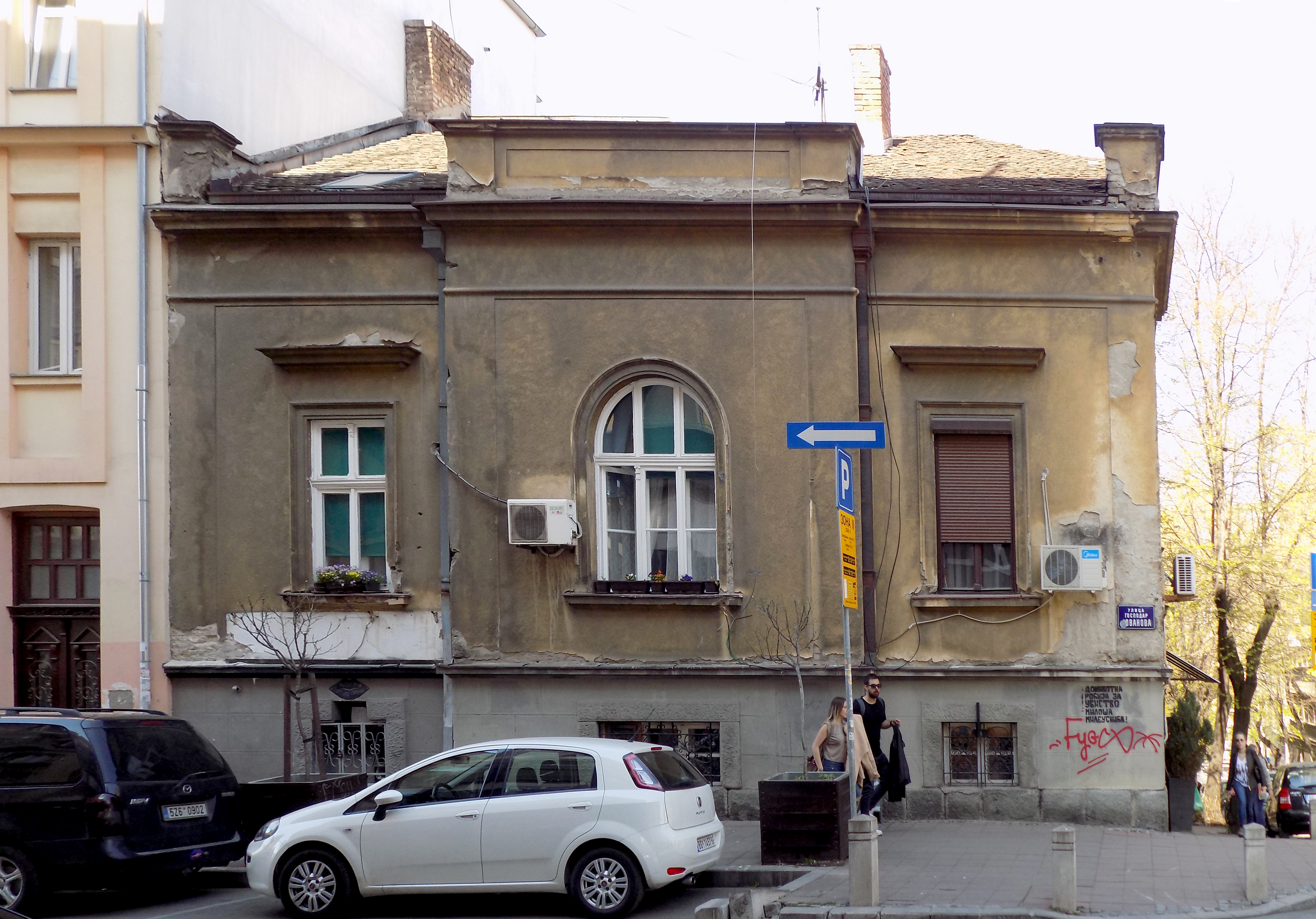 House of Beta and Rista Vukanović in 13 Kapetan Mišina street, Belgrade - view from Gospodar Jovanova st.